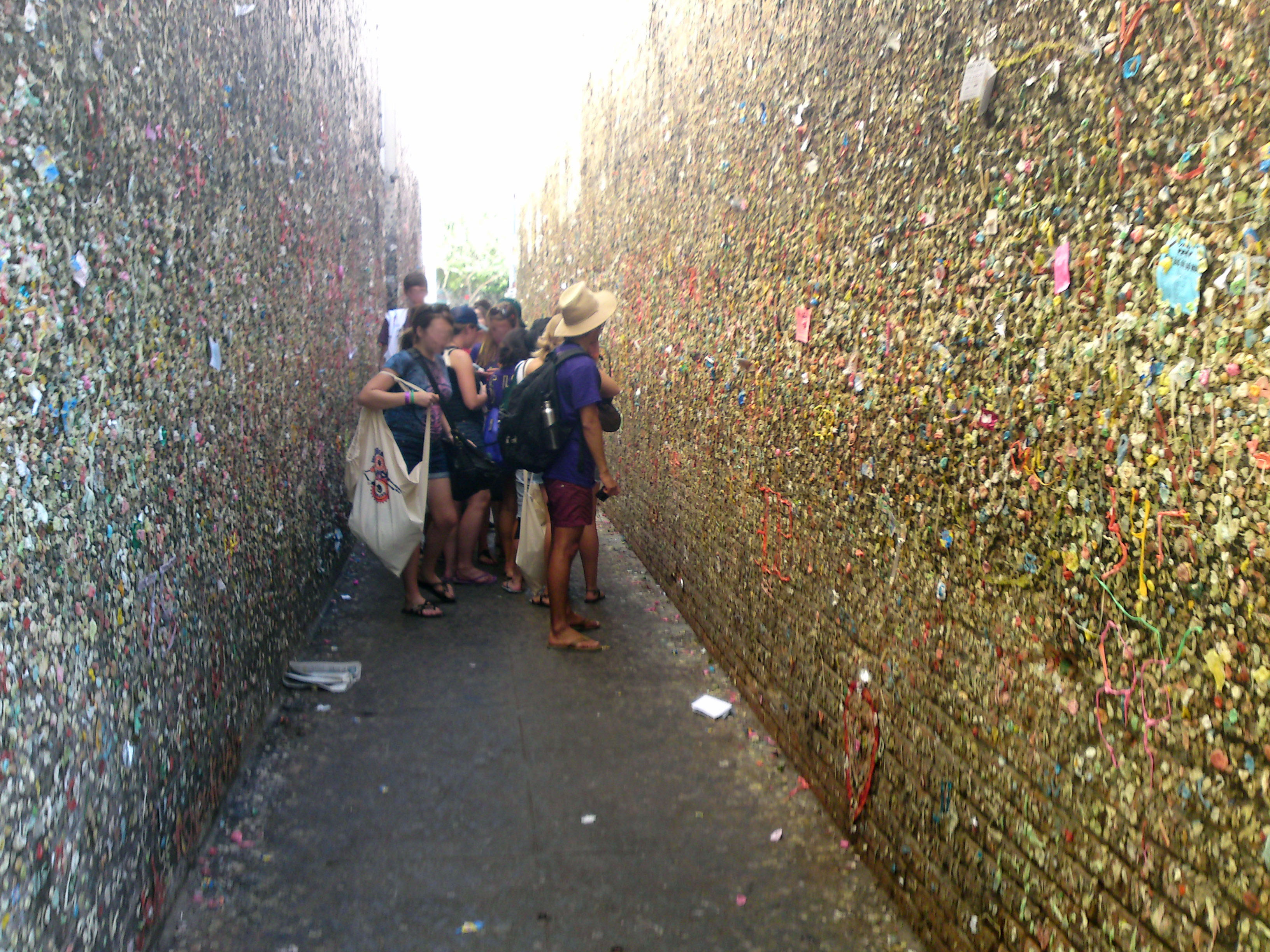 Bubblegum alley in San Luis Obispo, California USA